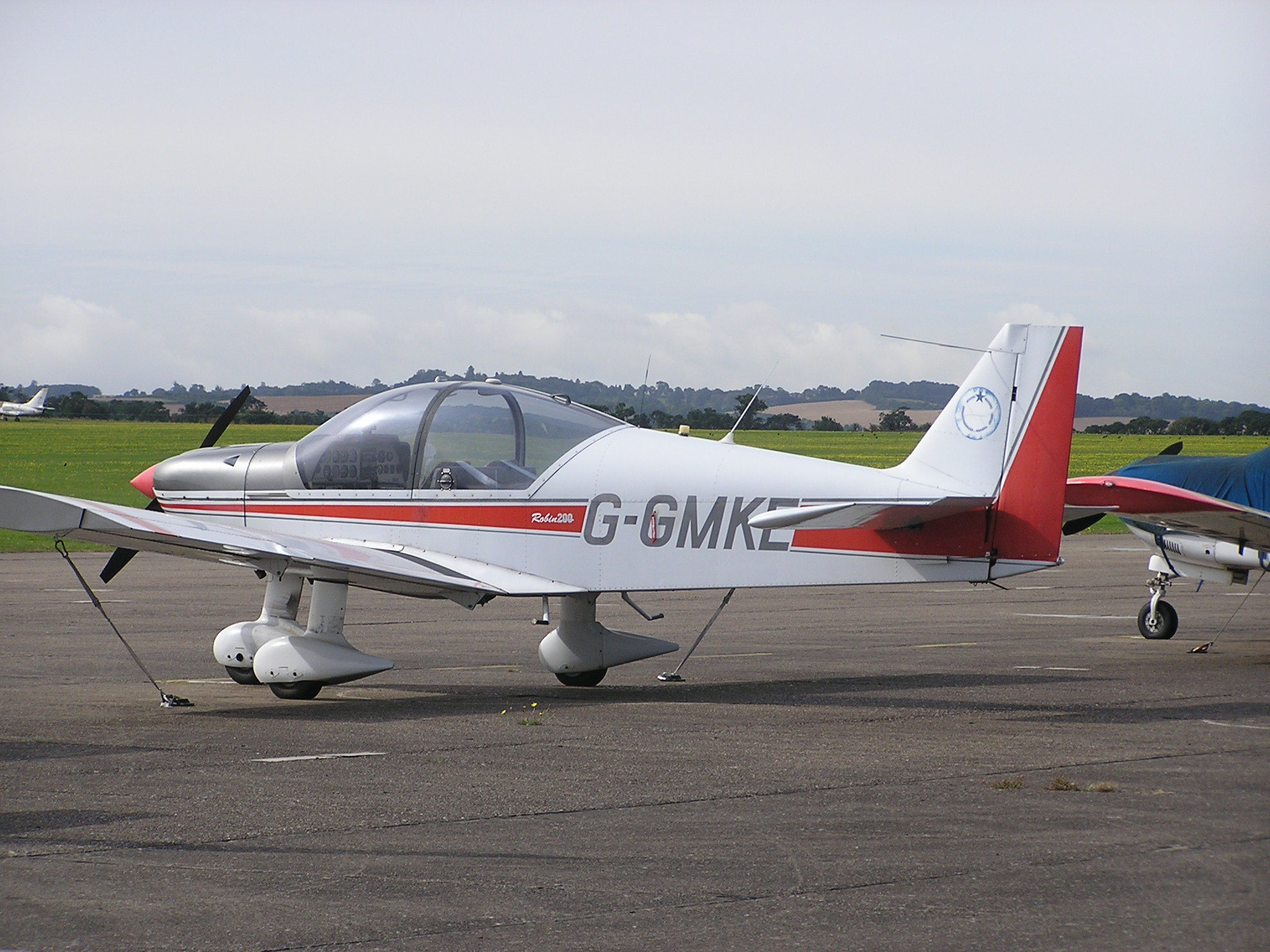 Robin HR200/120B at Duxford 22 August 2012.